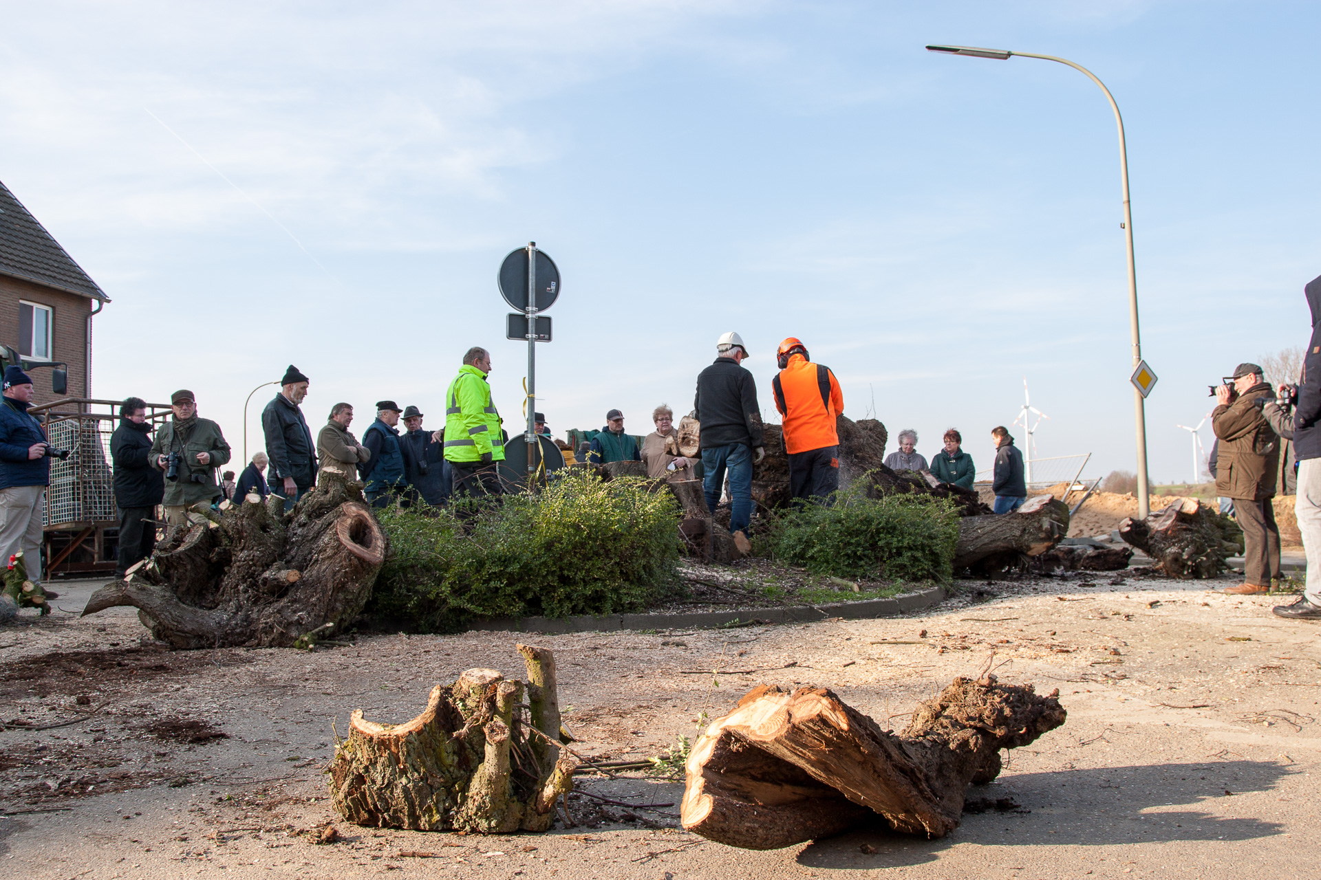 The lime tree (Tilia) in Borschemich, in the morning of 27 February 2016.